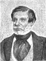 Watercolor portrait of Joseph Kenny Meadows